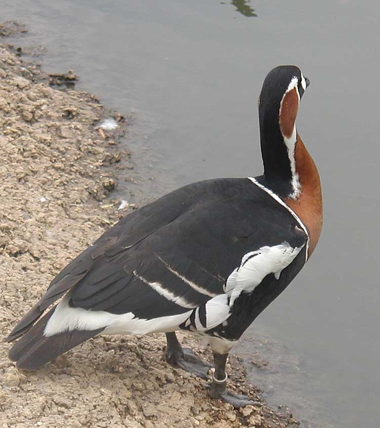 Red-breasted Goose at Slimbridge Wildfowl and Wetlands Centre, Gloucestershire, England. Taken by Adrian Pingstone in June 2003 and released to the public domain (aus englischer Wikipedia)